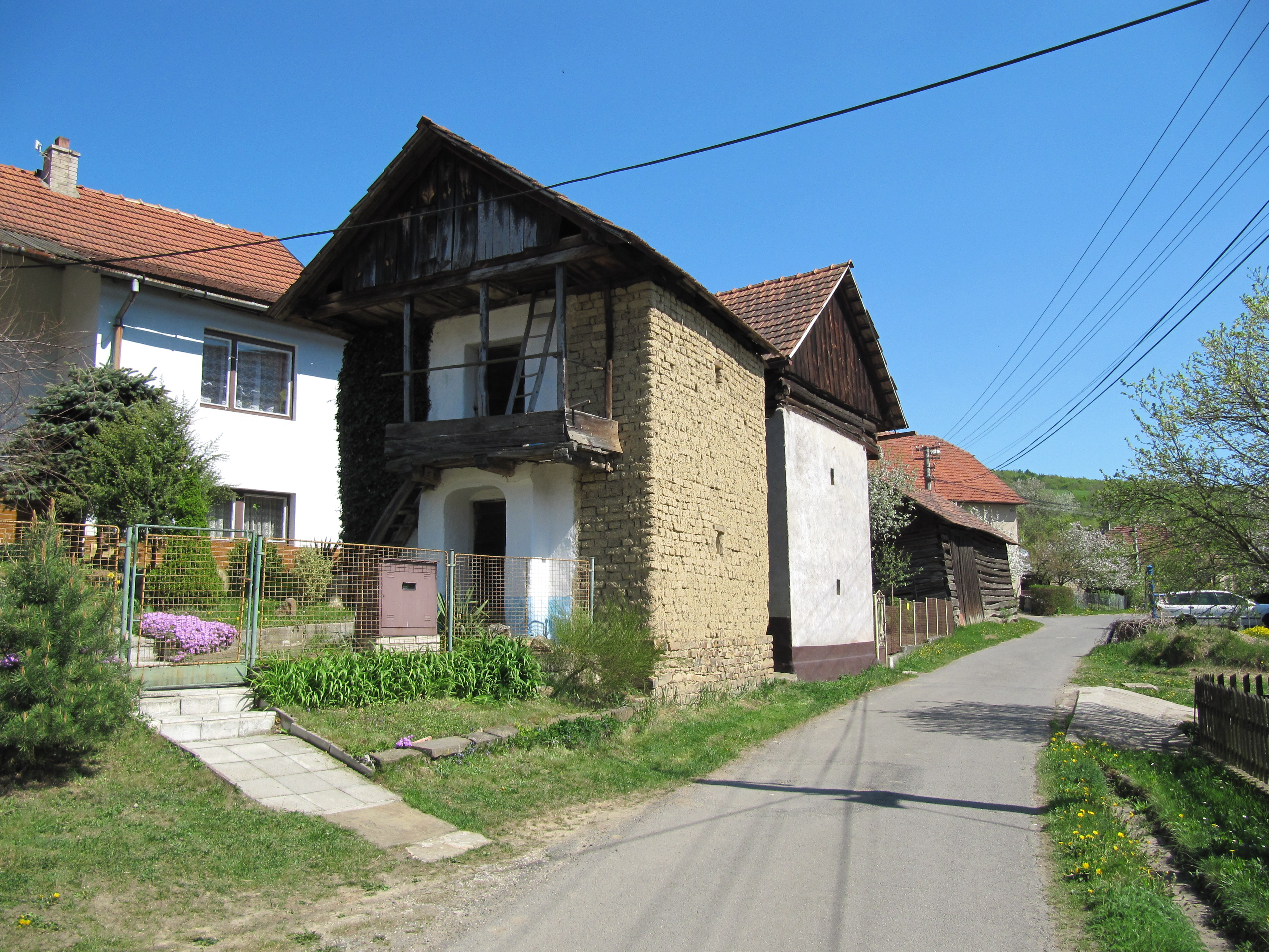 Hřivínův Újezd in Zlín District, Czech Republic. Listed chamber of the house No. 19.